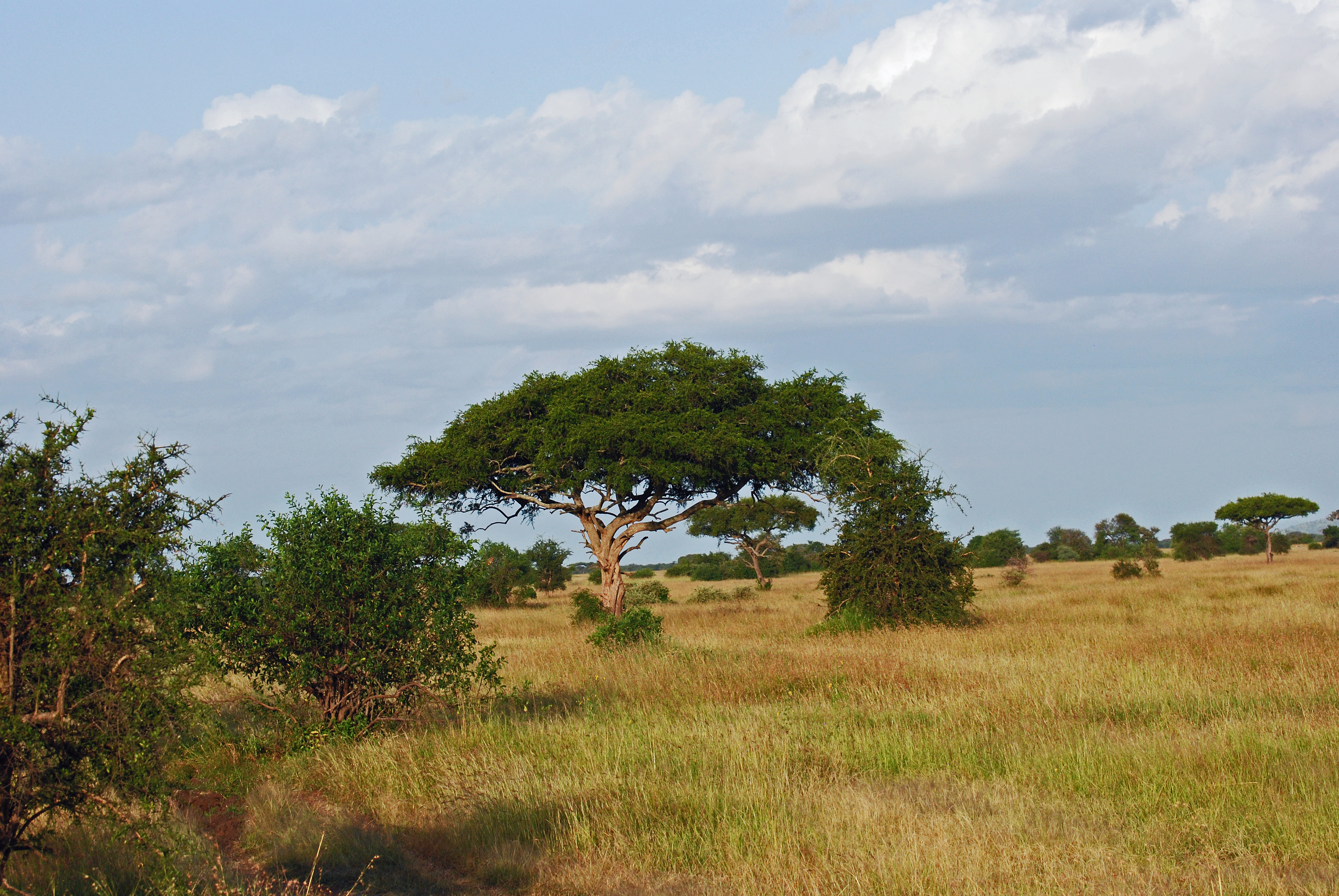 Serengeti National Park - Western Sector near the Grumeti River / Tanzania